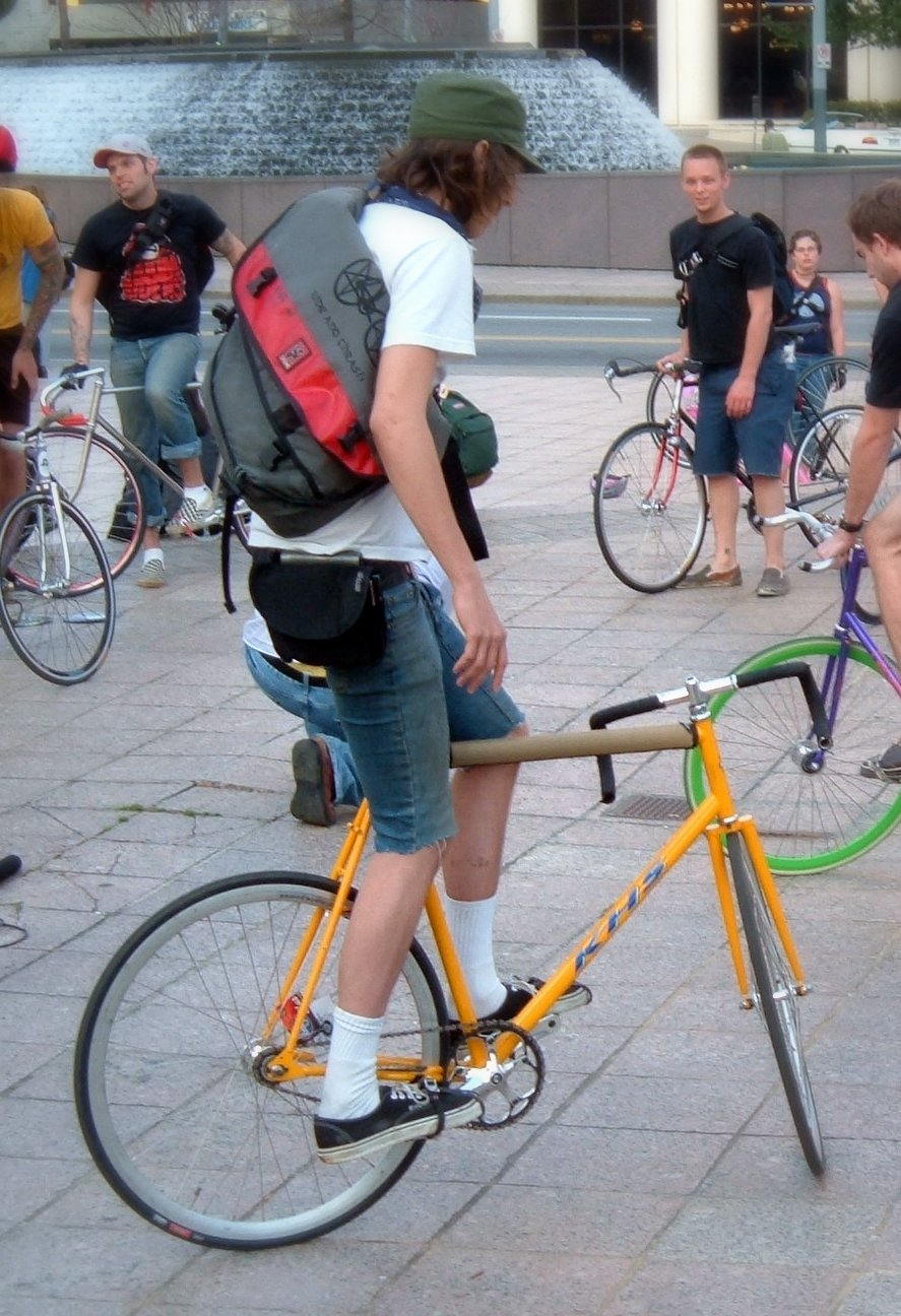 Track stand at the Atlanta, GA, USA Critical Mass